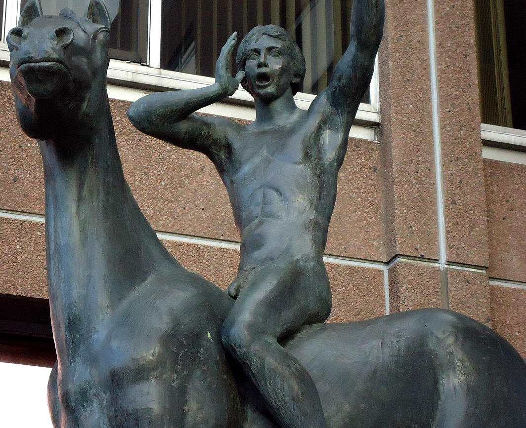 Sculpture by Sir David Wynne situated outside Quadrant House, the Quadrant, Sutton, Surrey, Greater London